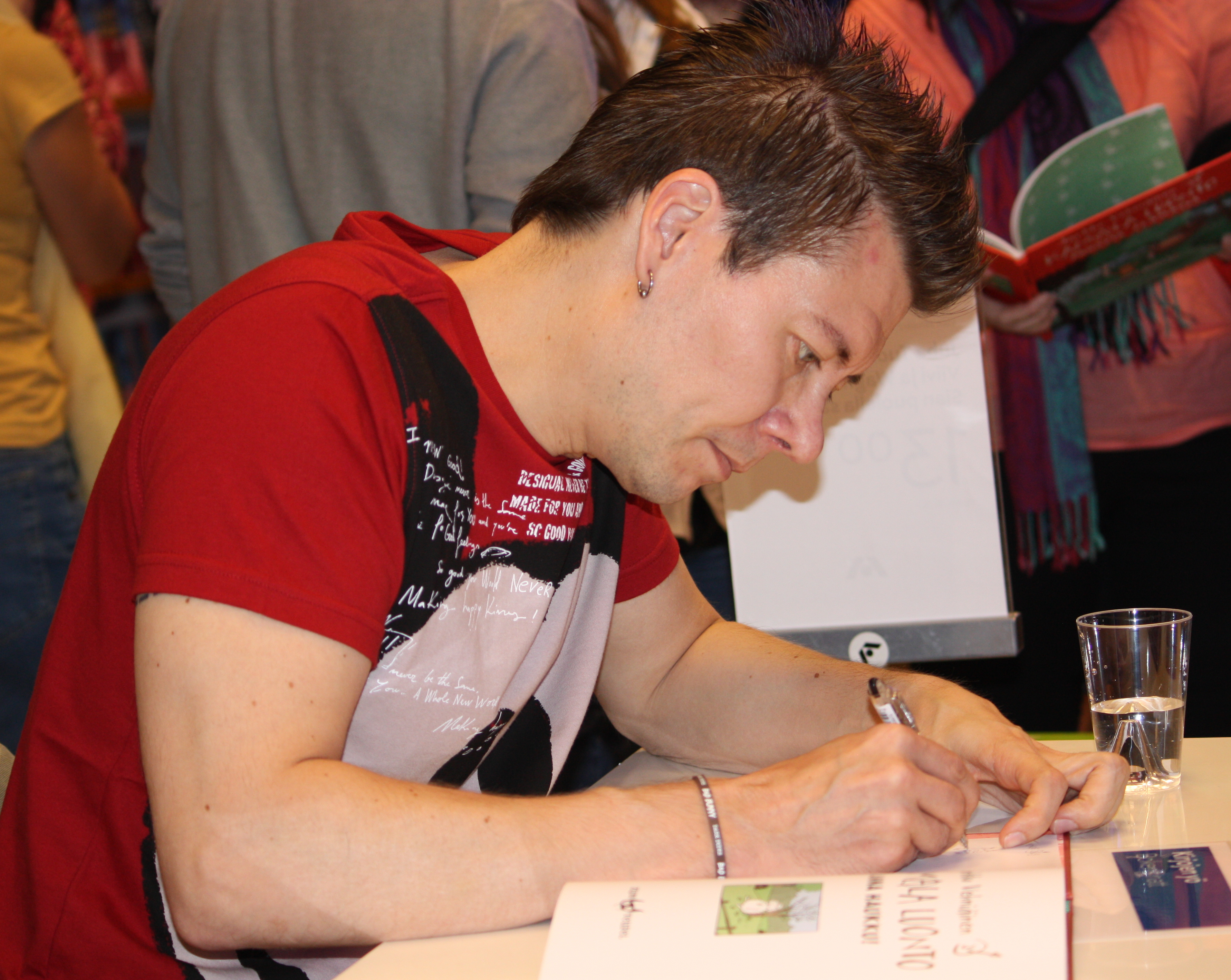 Comics artist Jarkko Vehniäinen signing his books on The Night of The Arts in Helsinki 2013.